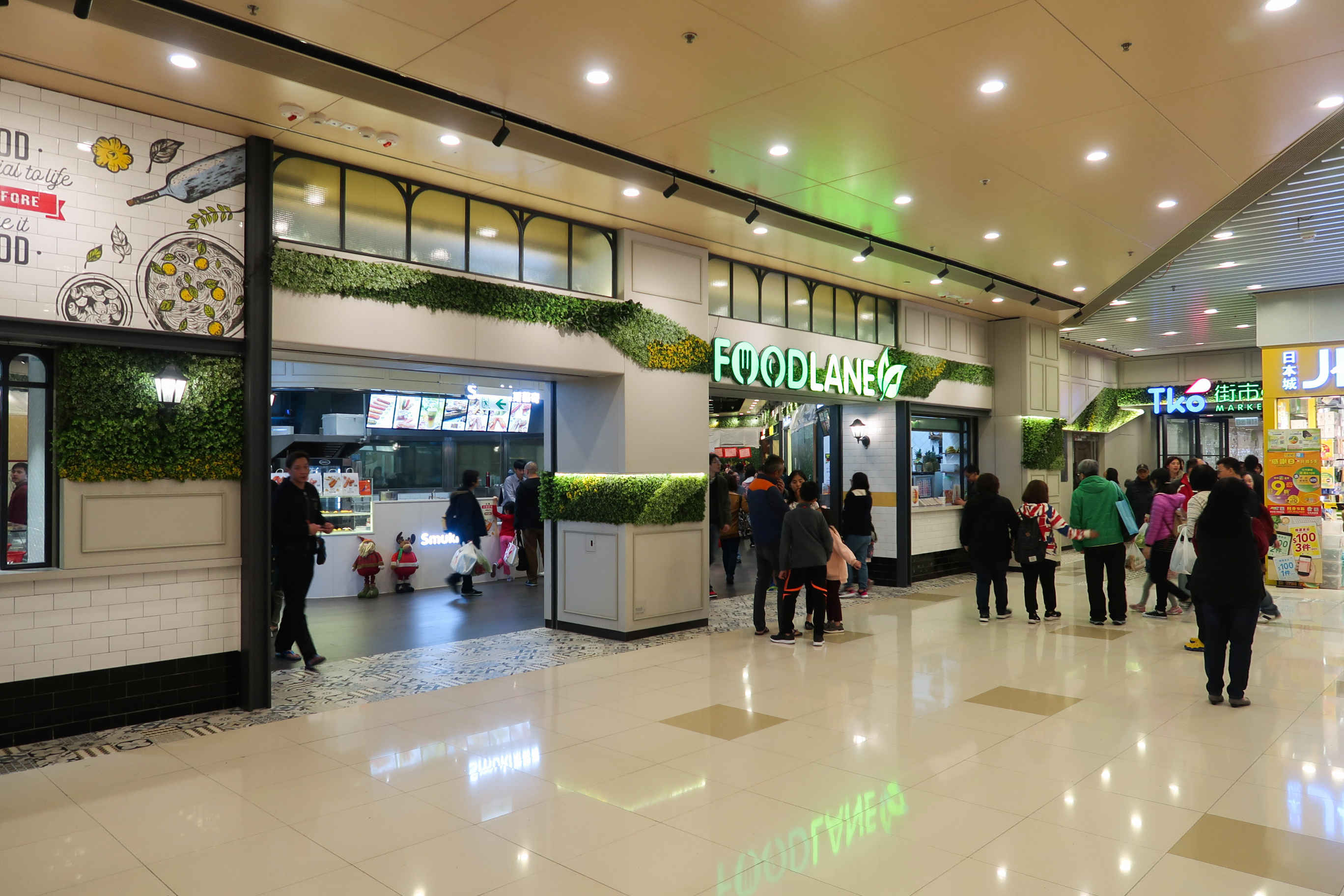 TKO Gateway G/F Food Lane